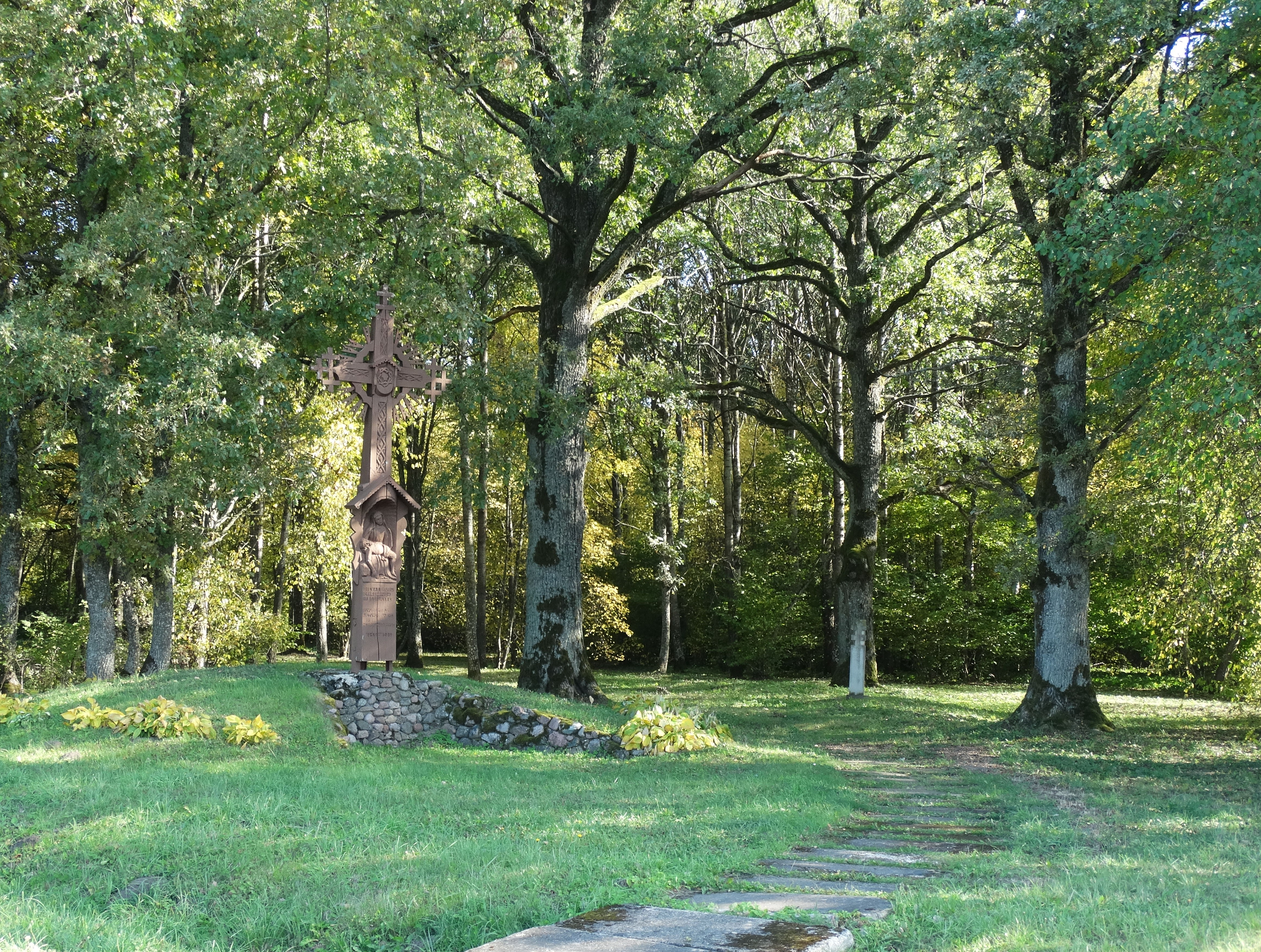 Oak forest of Vedeckas, Paraseinys, Raseiniai district, Lithuania